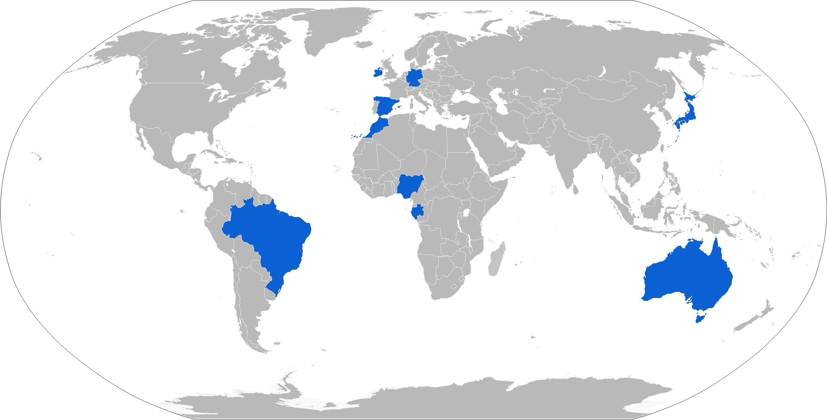 Map with military operators of the Eurocopter EC135 in blue